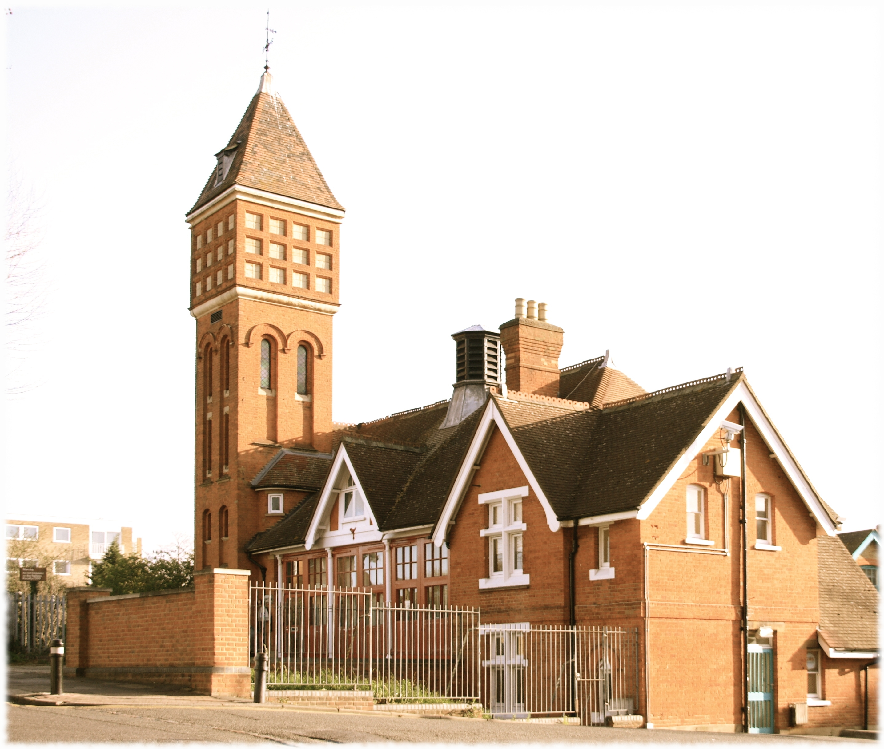 Former fire engine station (behind Ealing Town Hall), Longfield Avenue, Ealing, London W5. Designed by Charles Jones.